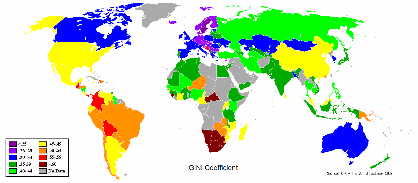 Gini-coefficient of national income distribution around the world (using 1989-2009 CIA estimates)